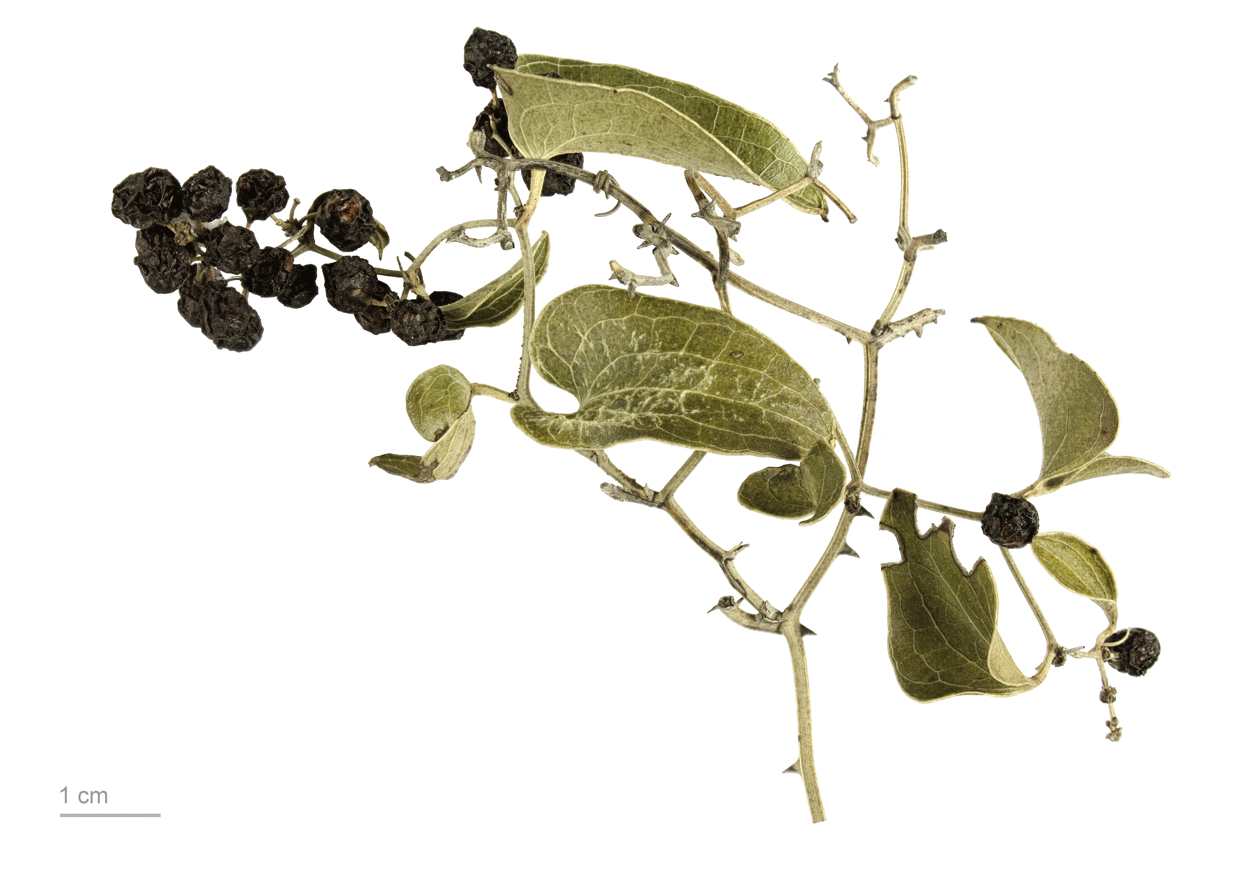 rough bindweed , fruits and seeds